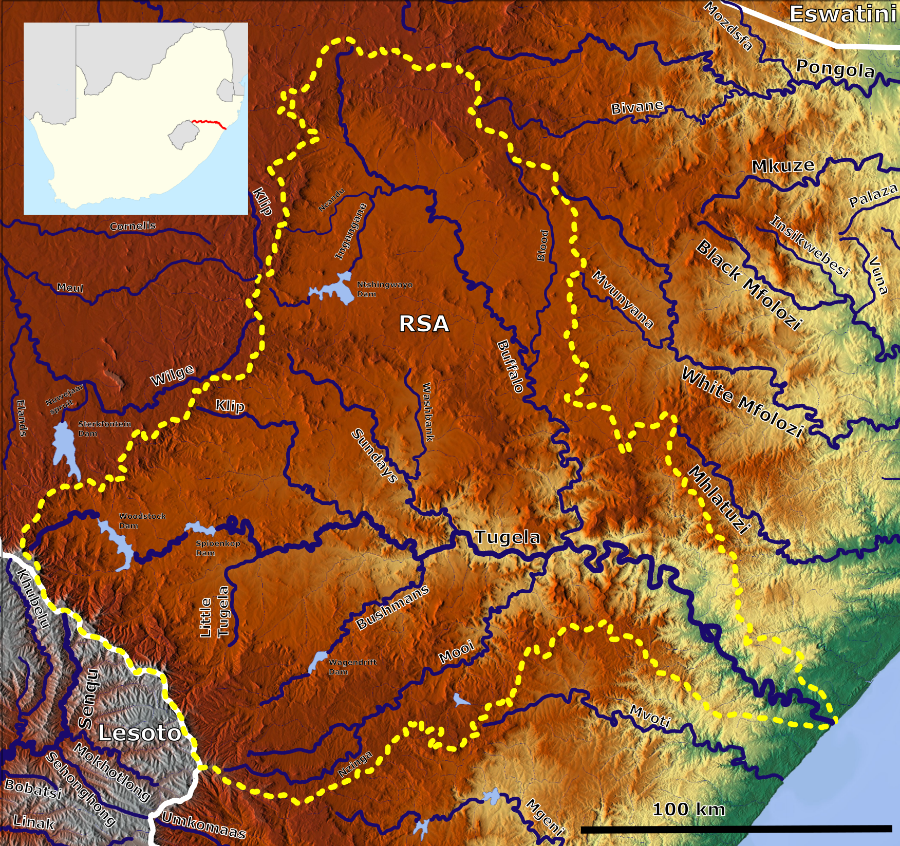 The Tugela River Basin (OSM)